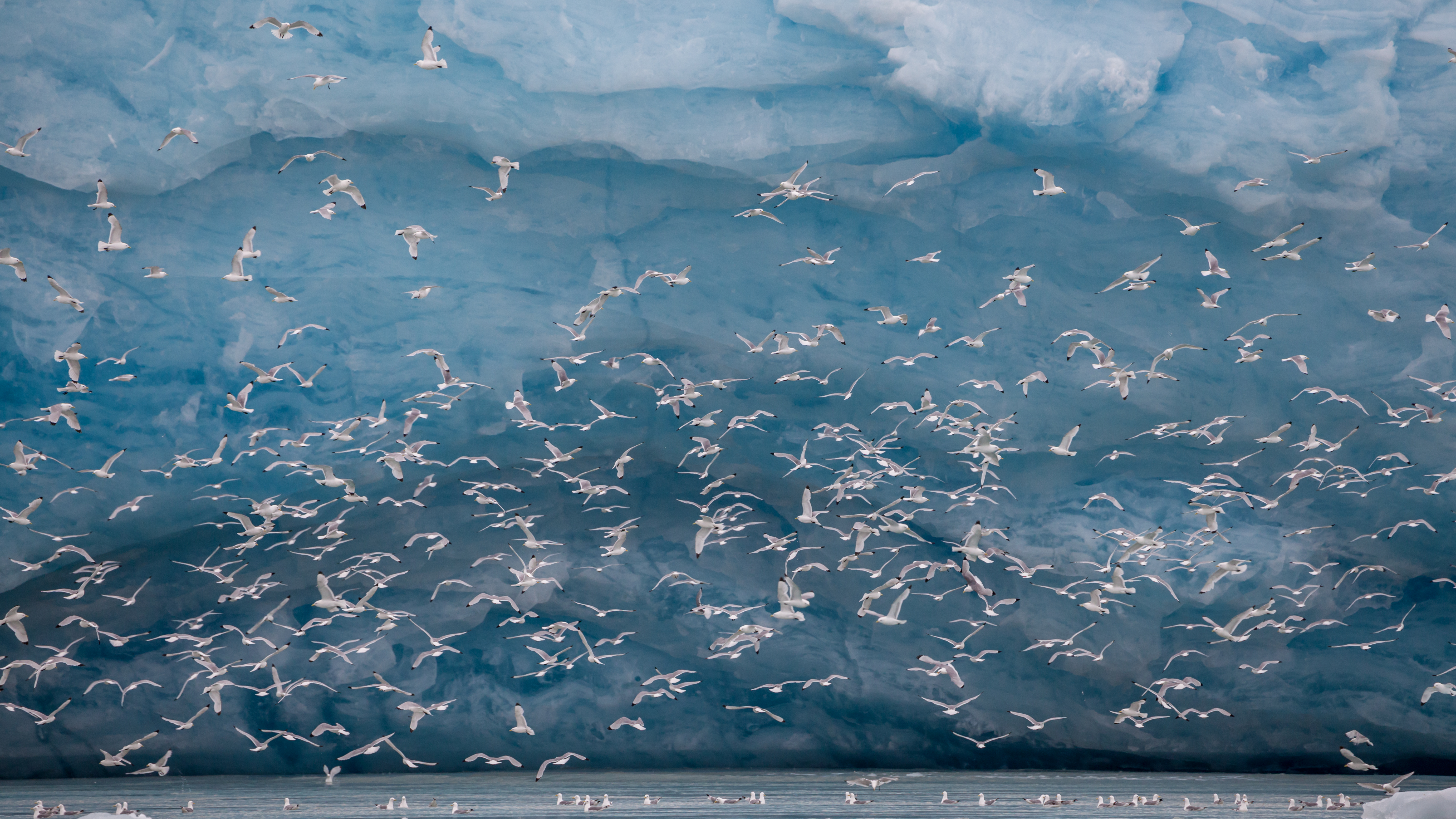 Kittiwakes hunting fish in front of the Monaco glacier, Liefdefjord, Spitsbergen (Norway). In summer, water from the melting ice is flowing underneath the glacier and carries a plethora of nutrients to the fjord. This is a suitable habitat for marine microorganisms and fish to grow. For the birds this area, therefore, is an ideal hunting ground.